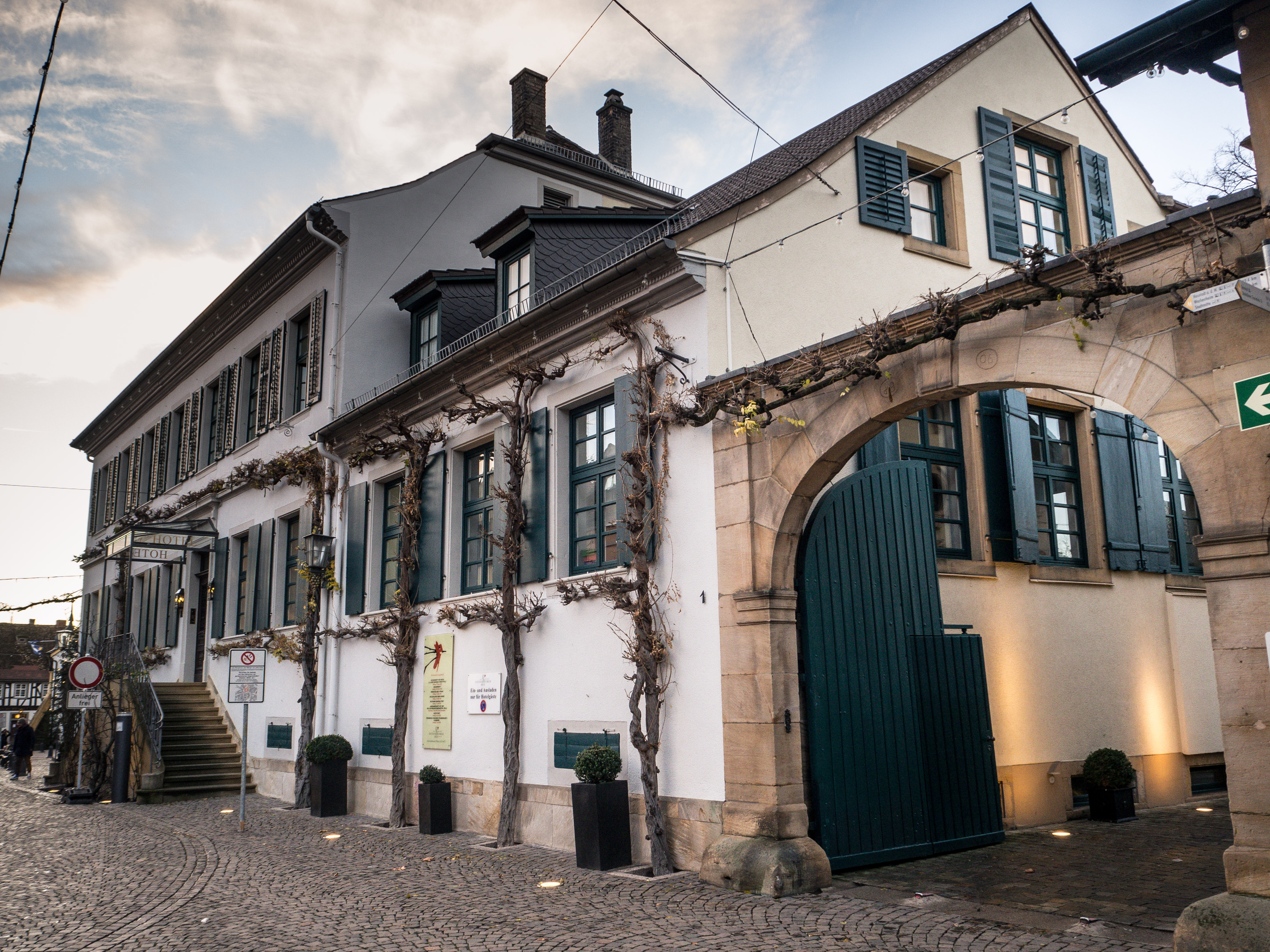 Dienheimer Hof, Deidesheim